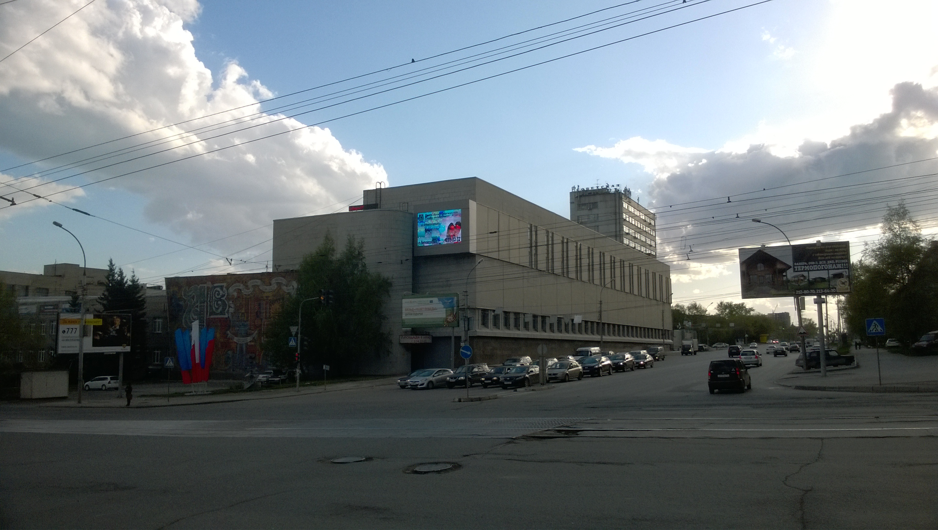 "Sovietskaya Sibir". Large printing house in Novosibirsk.